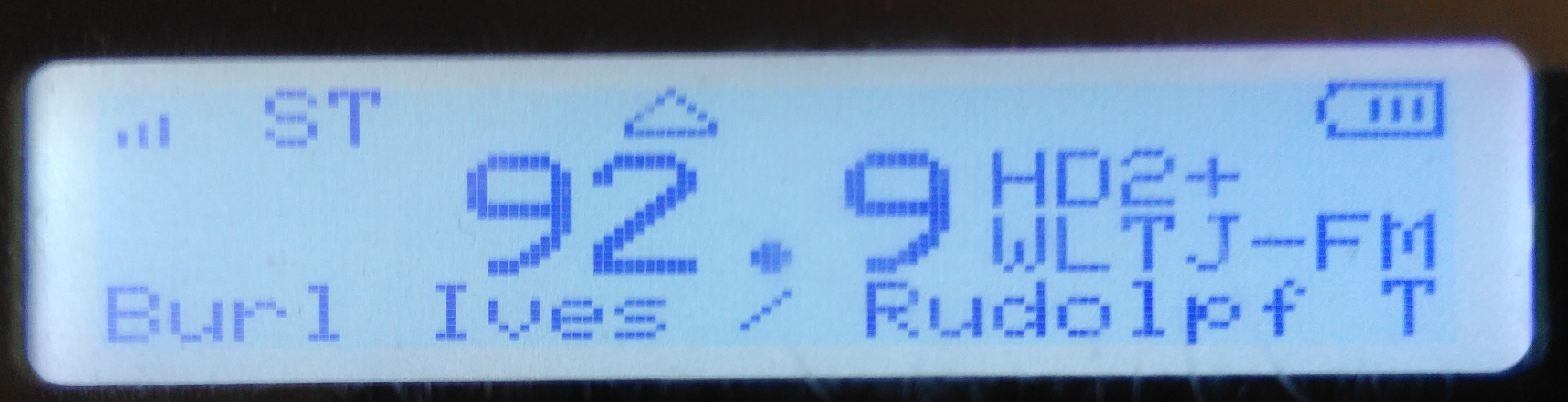 WLTJ's HD2 Channel on a SPARC Radio with PSD and EAS.